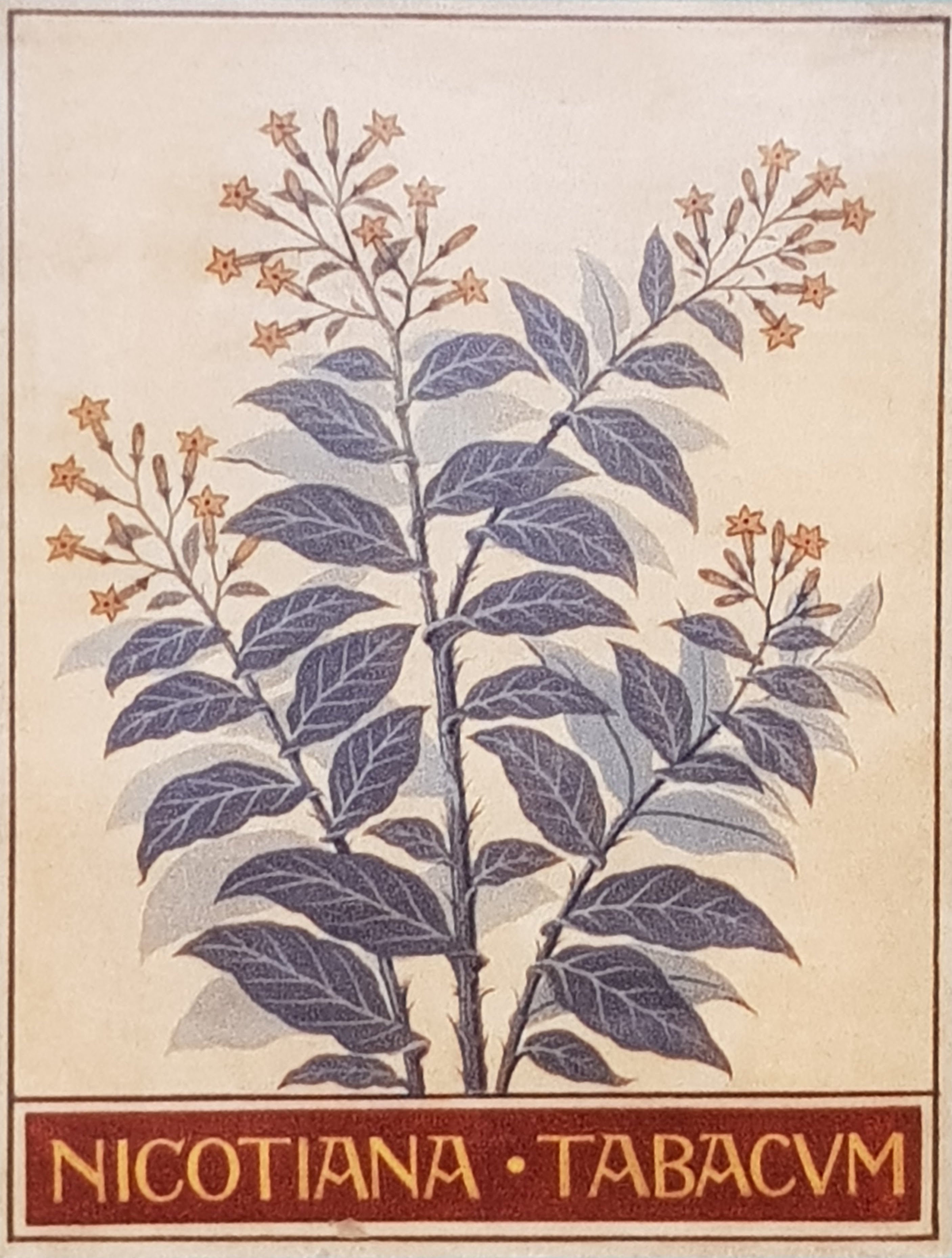 Hintze Hall, Natural History Museum, London, December 2017 – Nicotiana tabacum panel